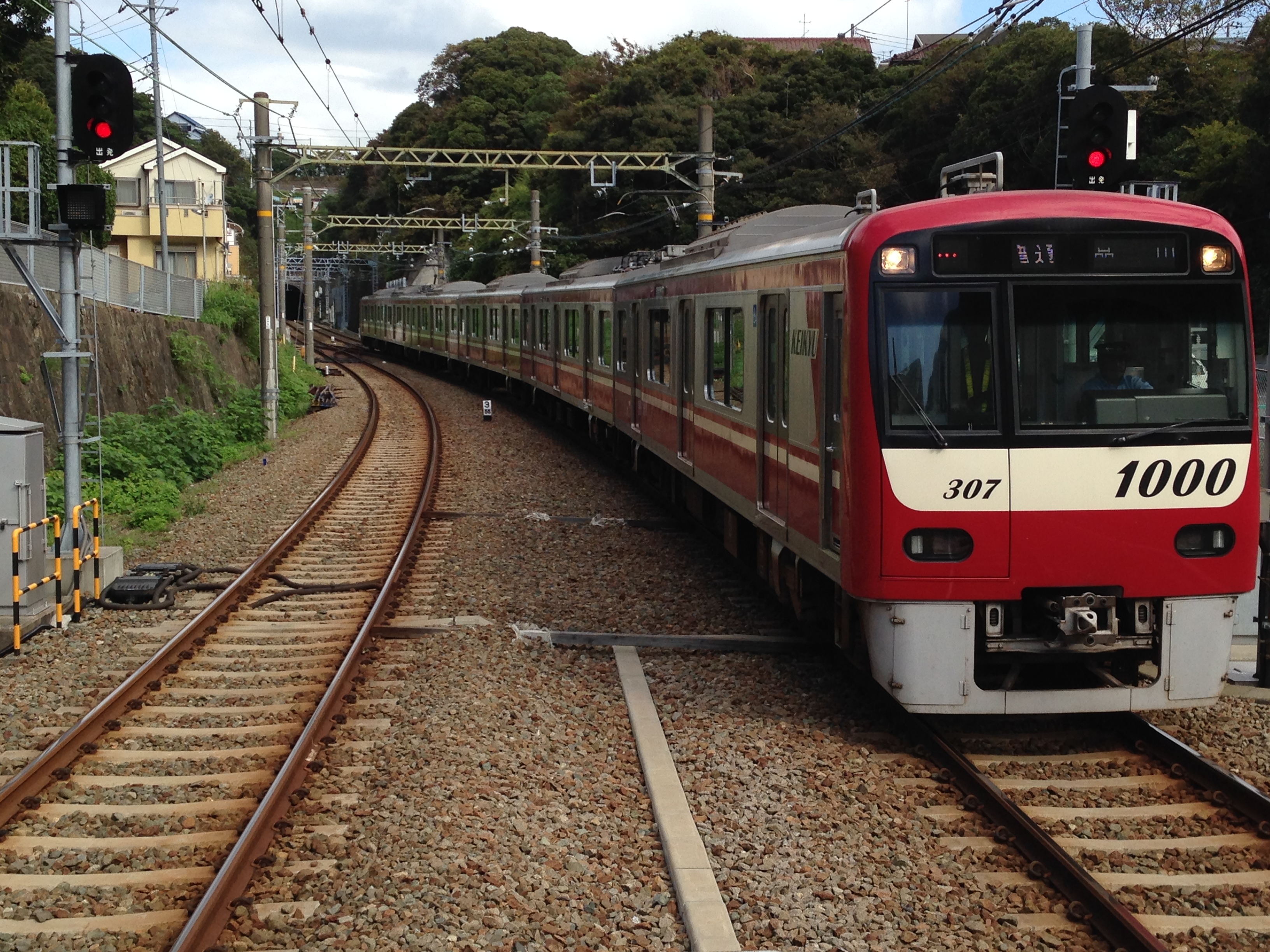 Keikyu Unit 1307 approaching to Uraga station